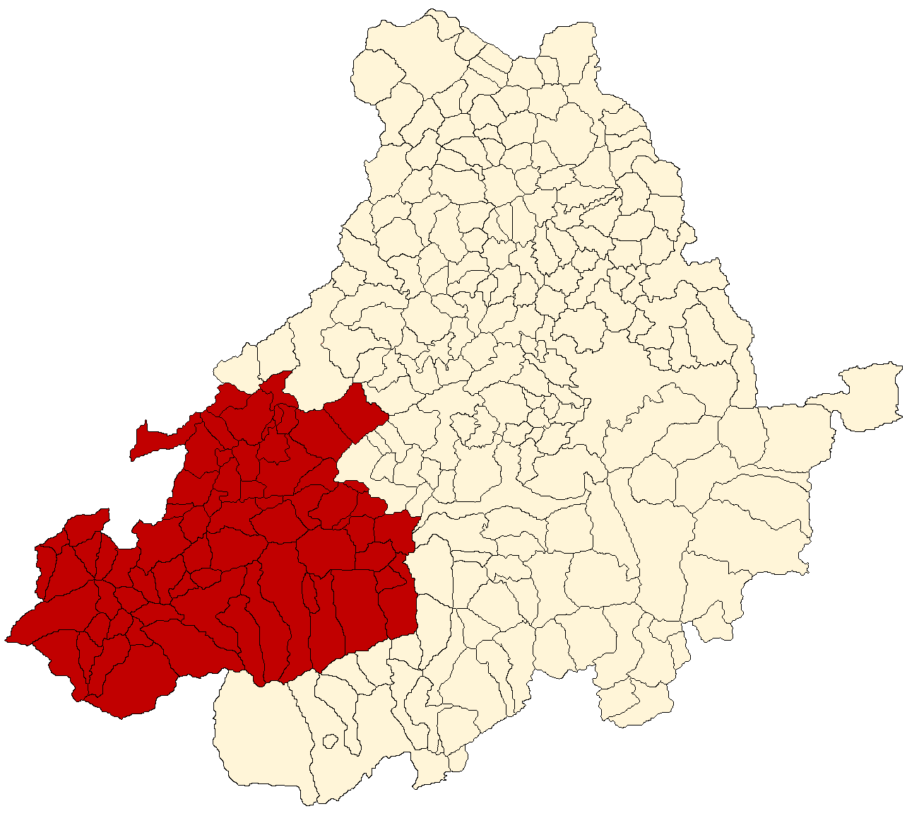 Map of region of El Barco de Ávila - Piedrahíta